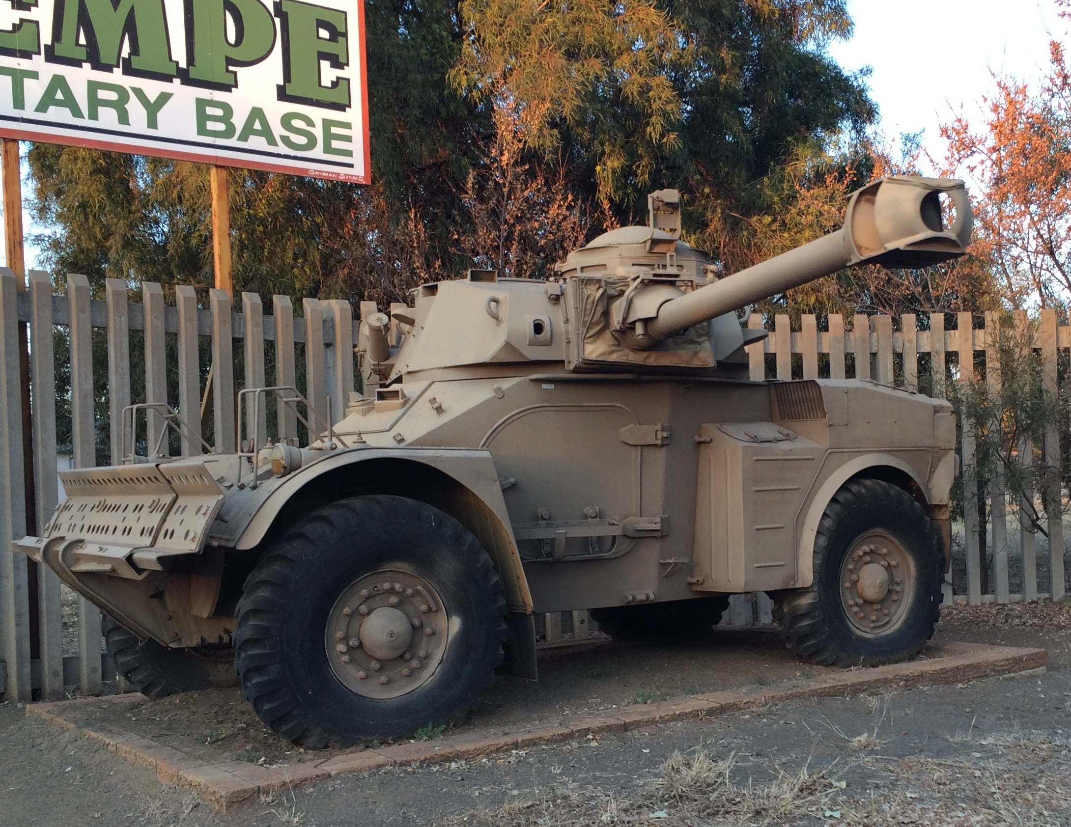 Description: Eland Mk7 Armoured Car with disabled 90mm gun at the end of Furstenburg Road, Bloemfontein. 2014.